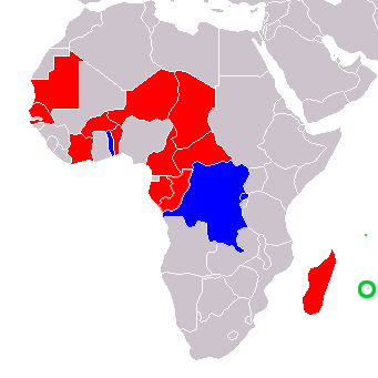 Member states of the African and Malagasy Union Red: Founding members / Blue: Members that joined in 1965 / Green: Joined 1970